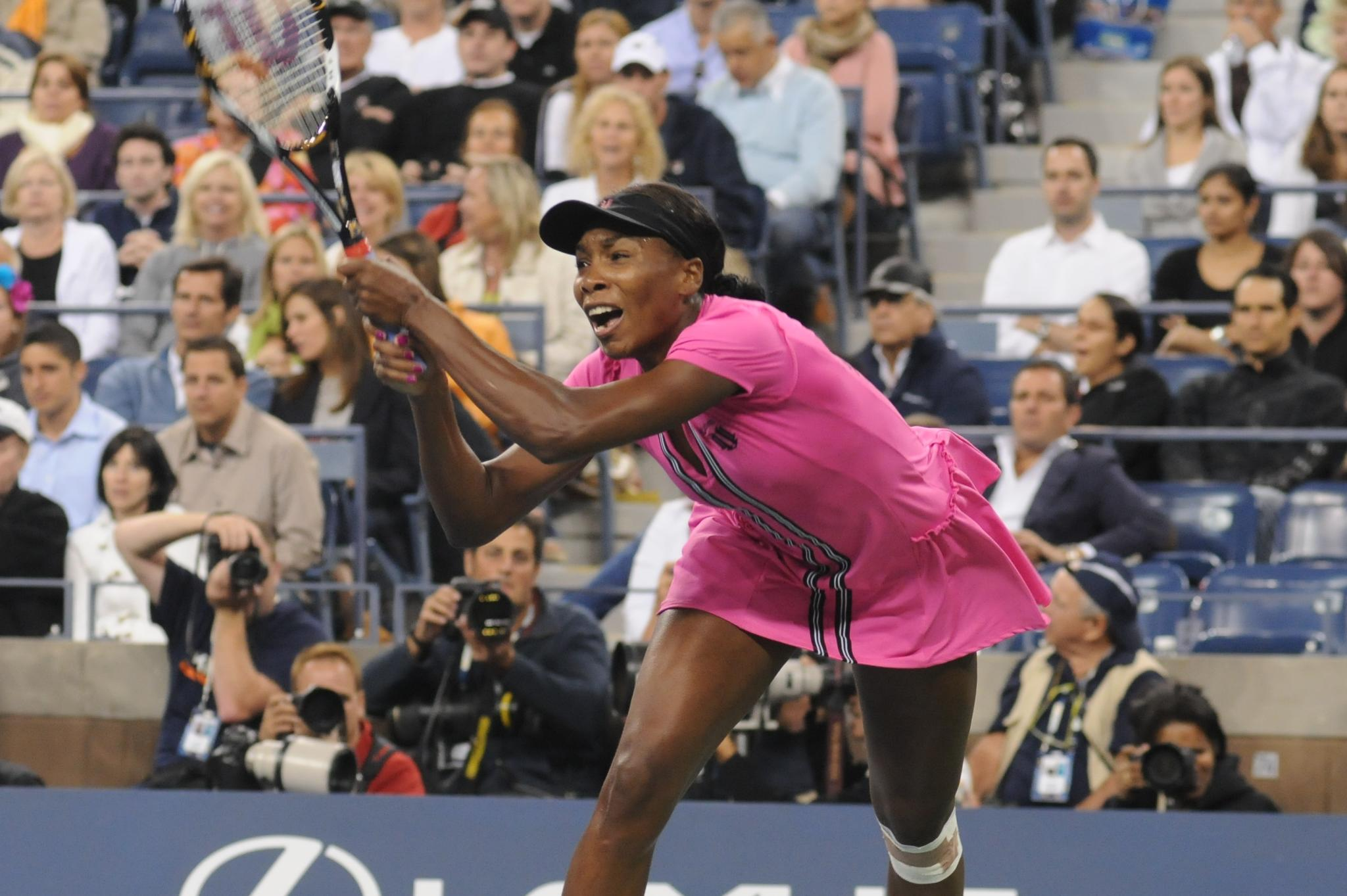 Venus Williams at the 2009 US Open